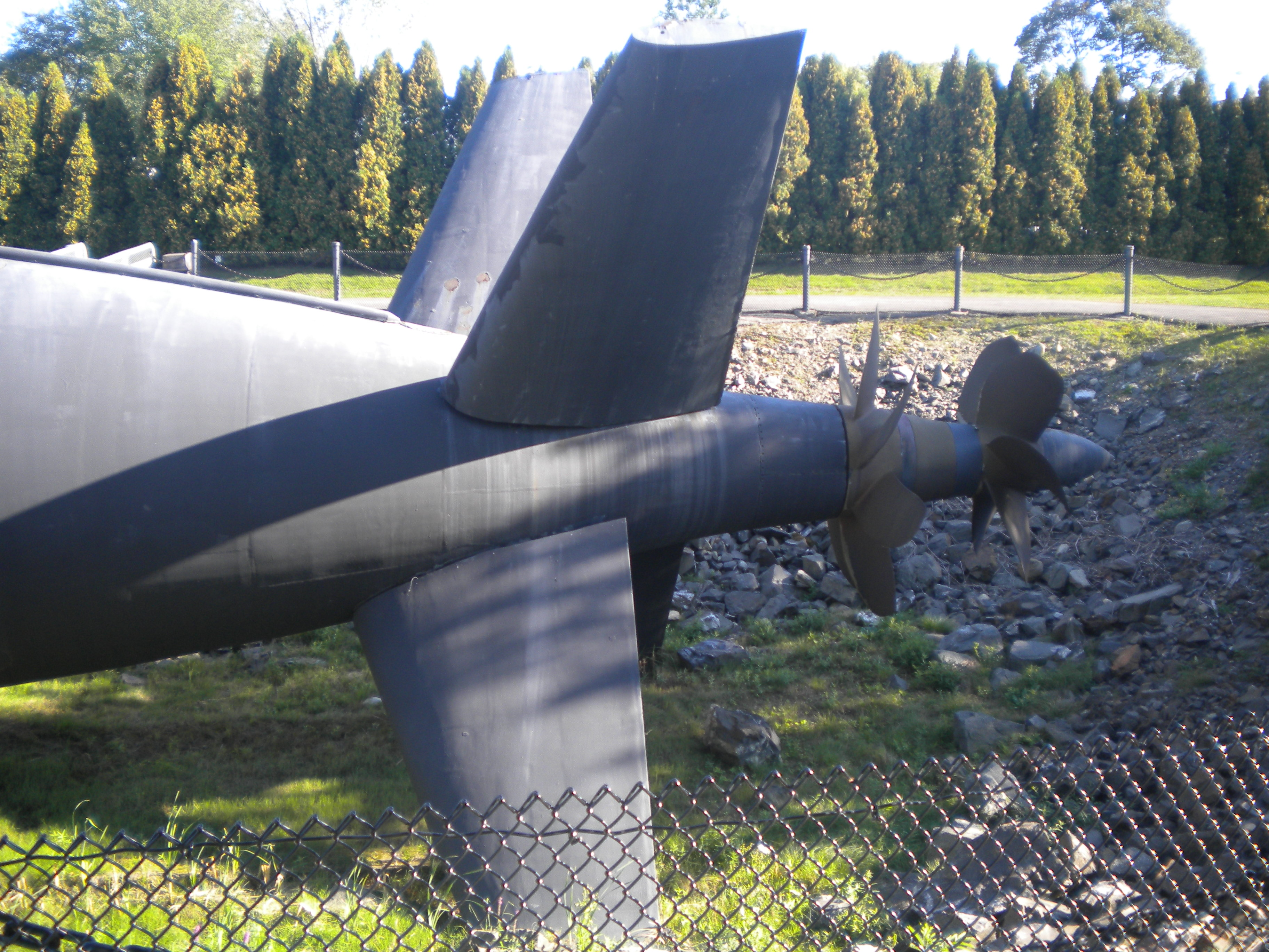 USS Albacore (AGSS-569) picture taken 9/18/2011